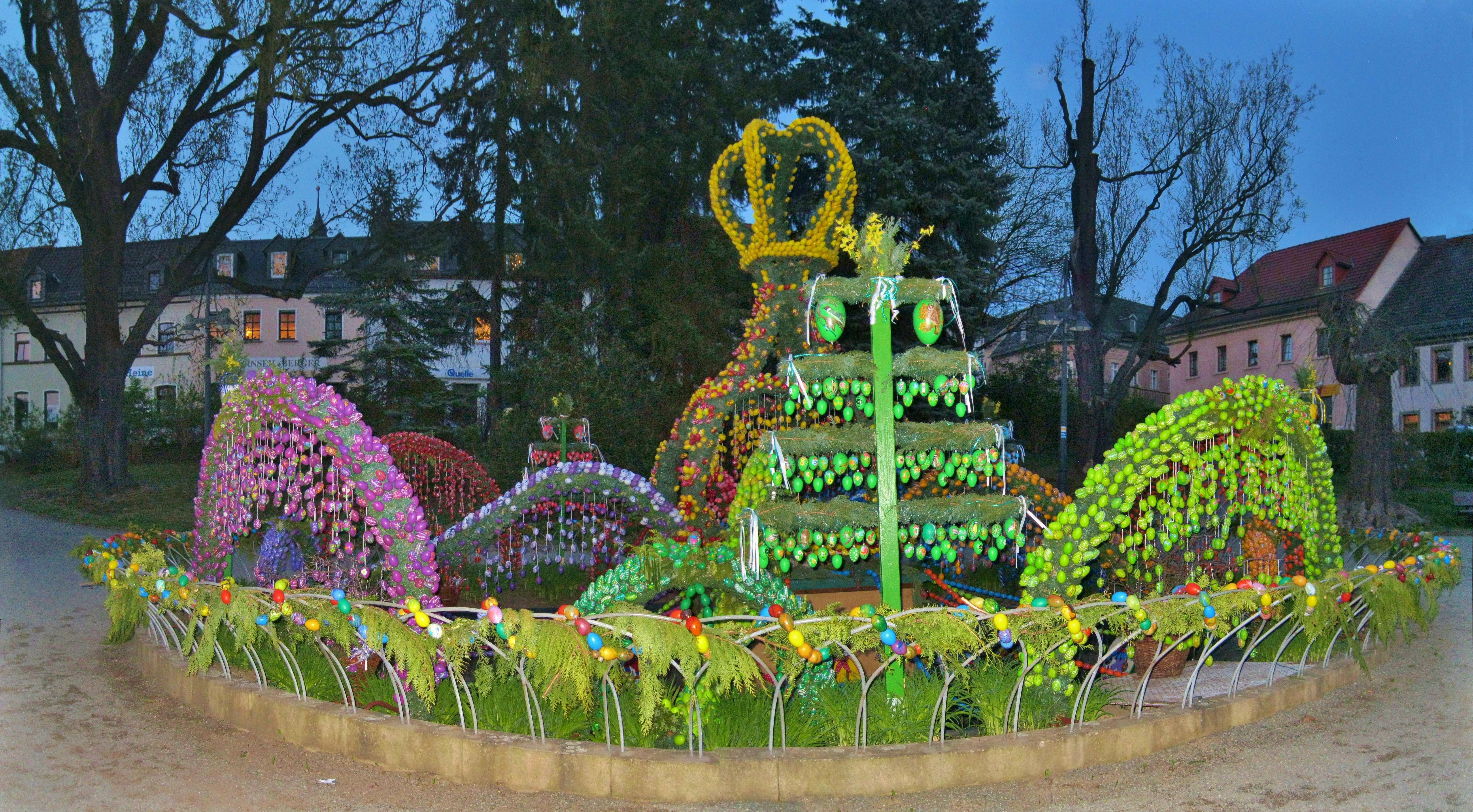 Easter fountain-custom in Berga/Elster.